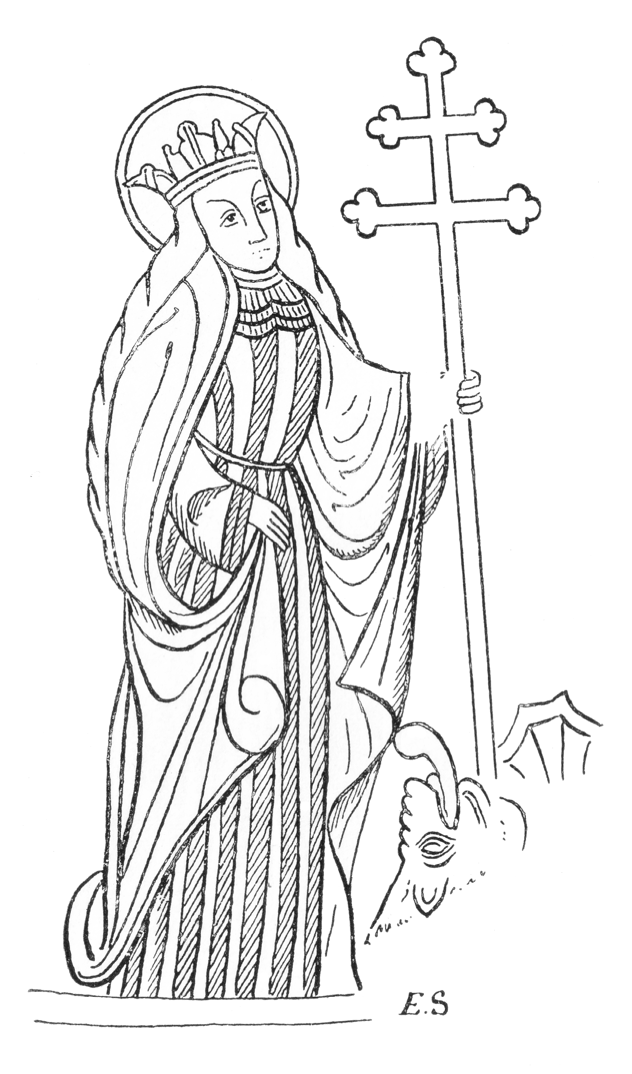 "De gamle Kalkmalerier i vore Kirker" (The old paintings in our churches) 1900 by Julius Magnus Petersen (1827–1917), Ill. 34. The book is digitized at De gamle Kalkmalerier i vore Kirker